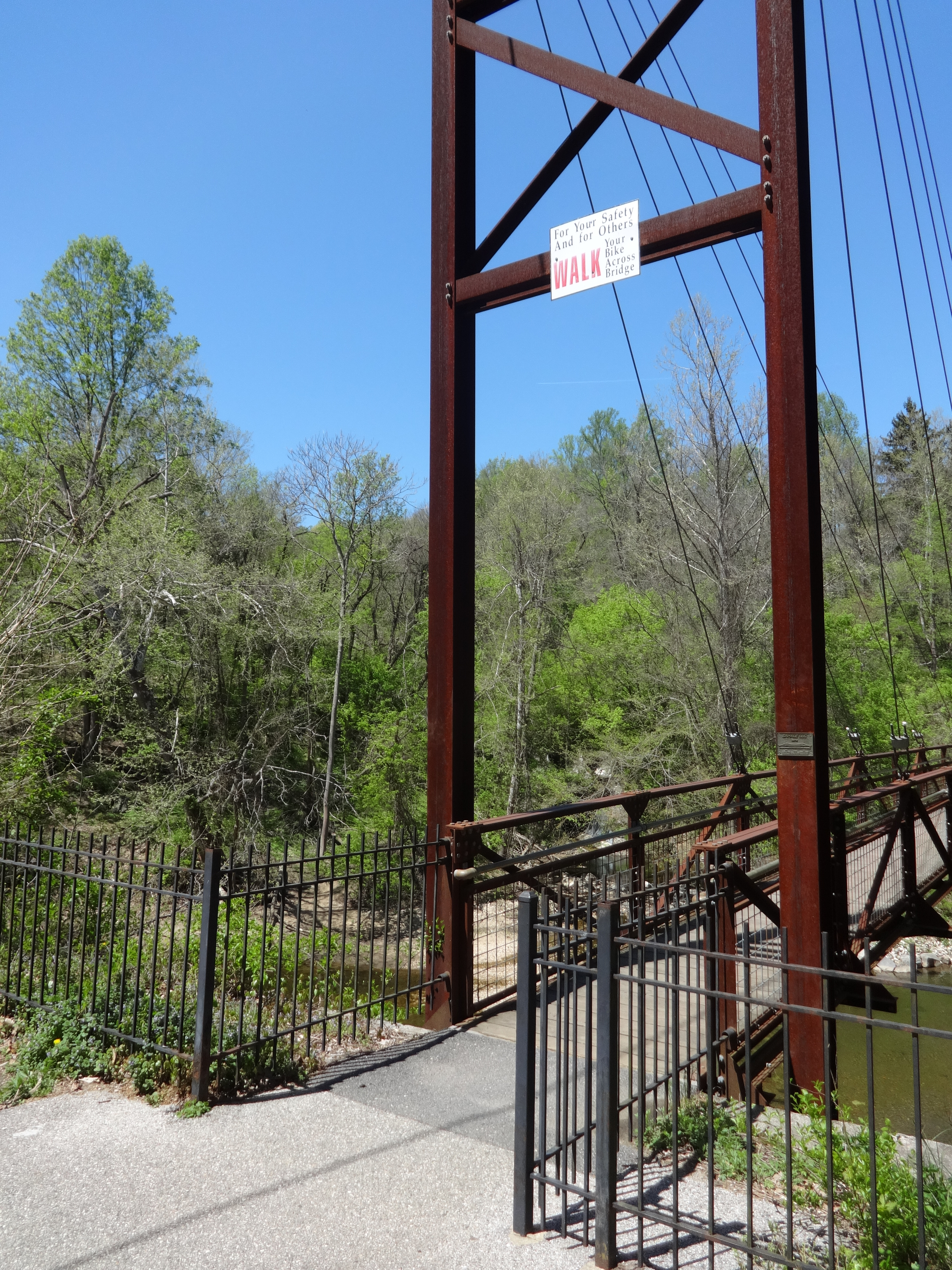 Grist Mill Walking Bridge, Avalon Area, Patapsco Valley State Park, Baltimore County and Howard County, Maryland.